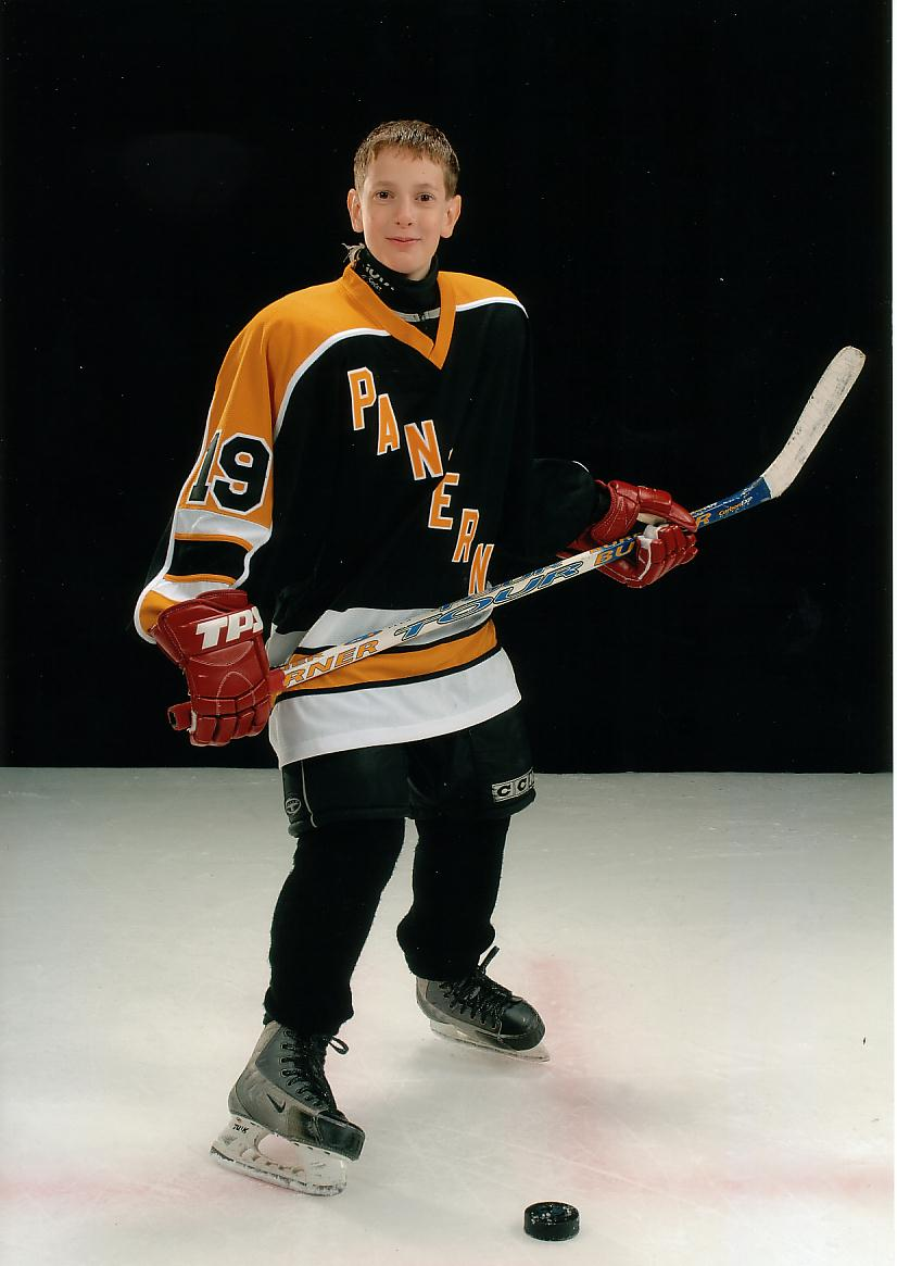 Jersey of